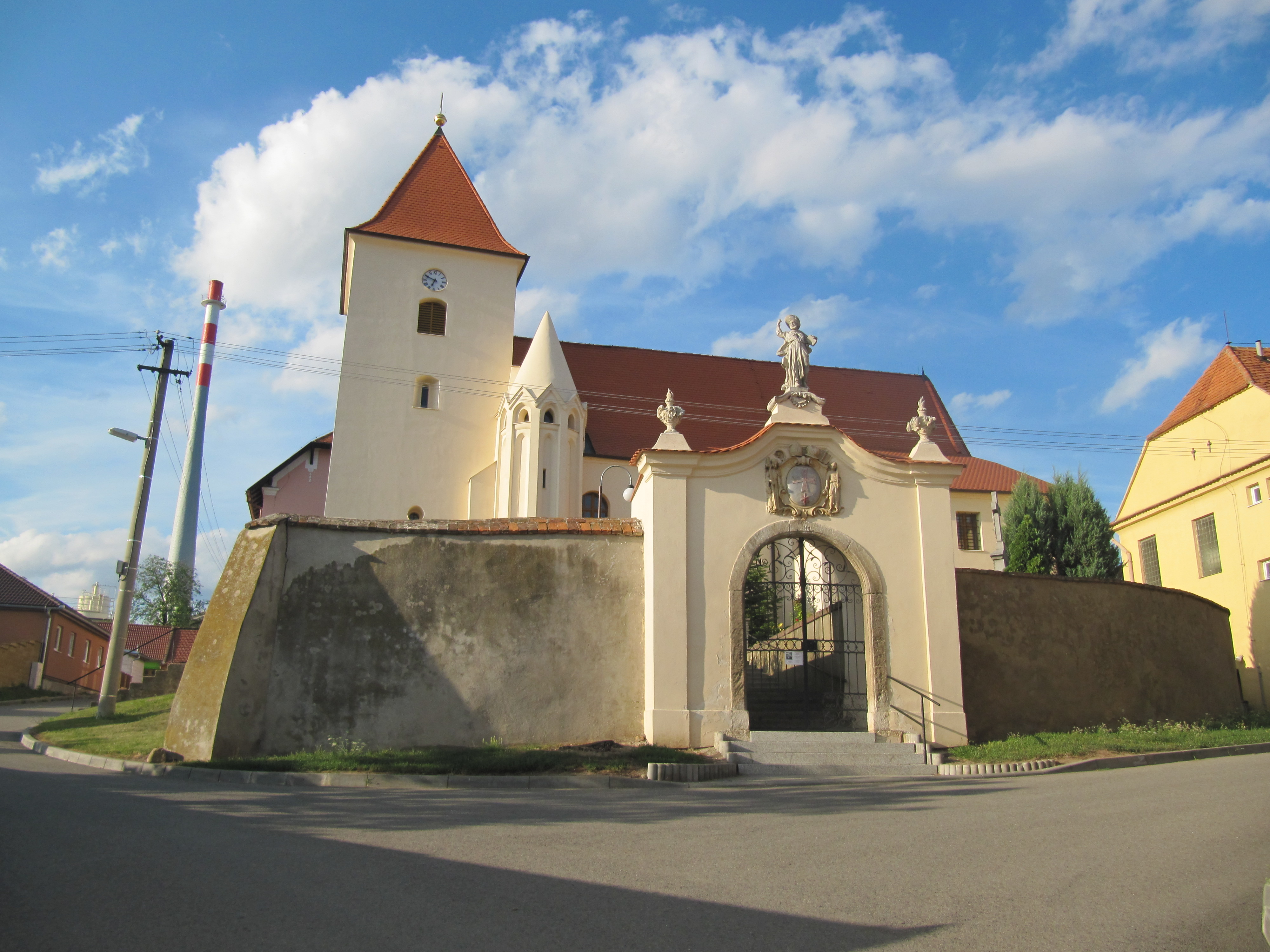 Hodonice in Znojmo District, Czech Republic. Church of St. James the Greater.